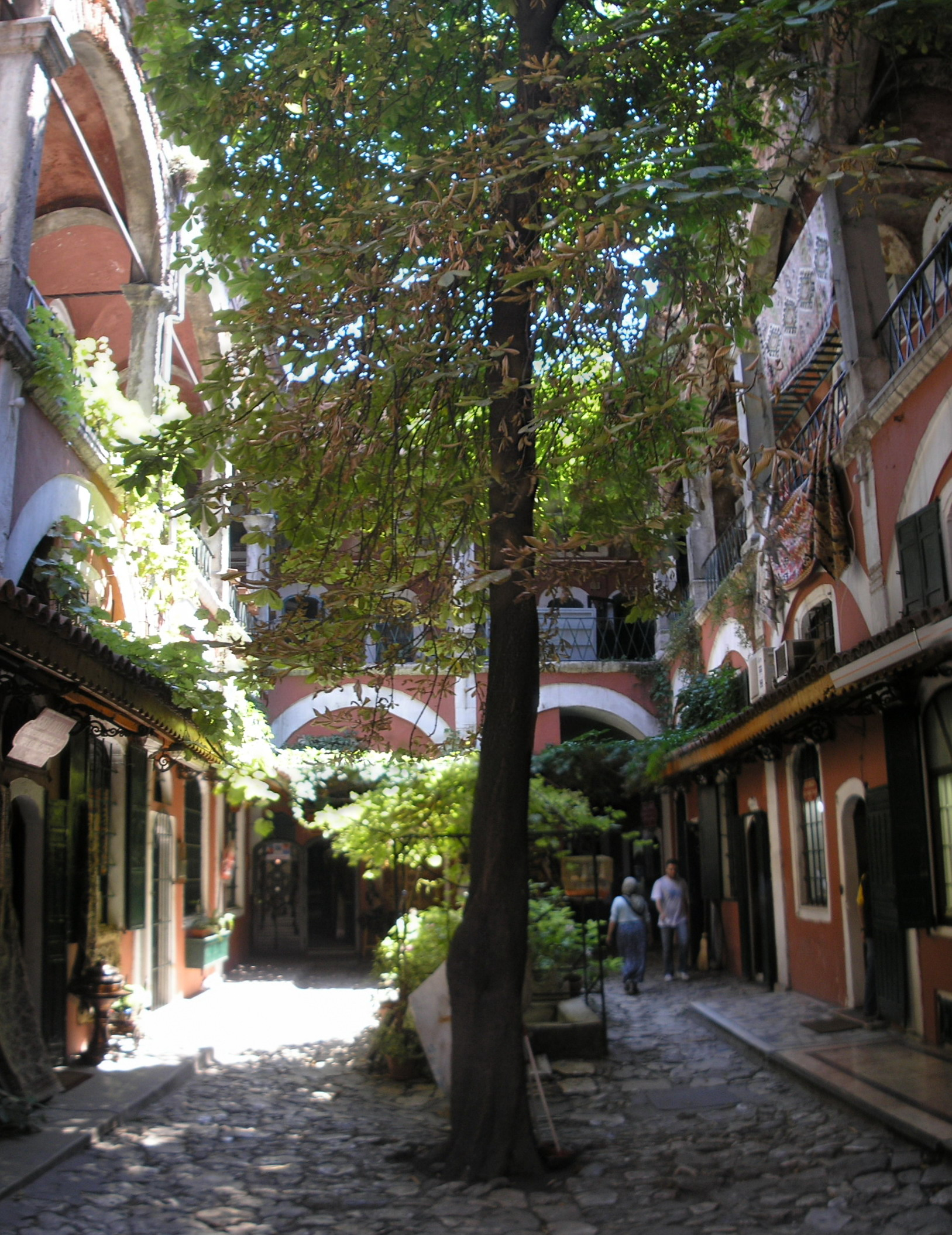 The Zincirli Hanı, one of the most outstanding courtyards in the Grand Bazaar, where jewelry is produced.